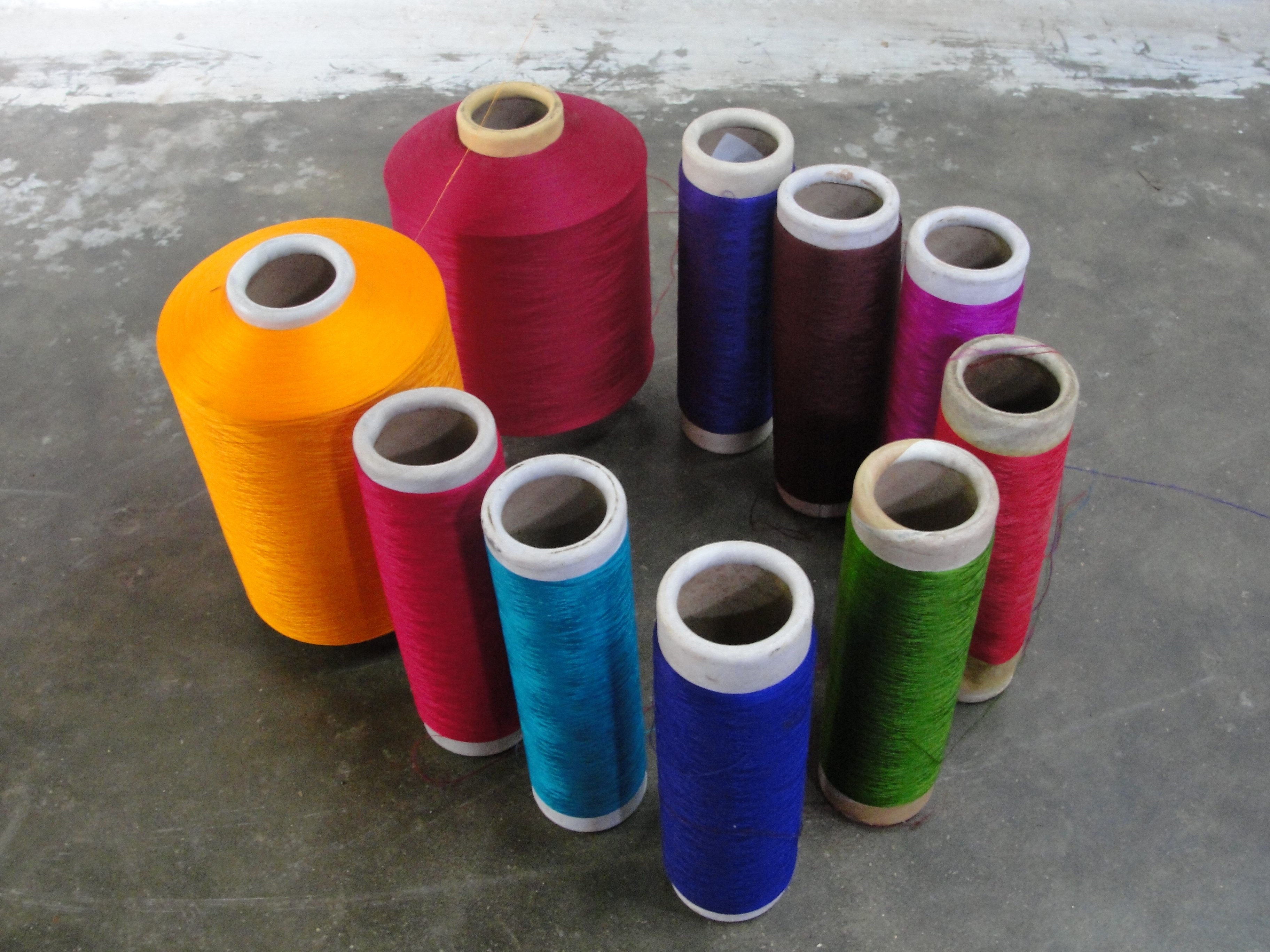 A visual treat of colour spoolsUnknown வண்ண நூற்கண்டுகள்